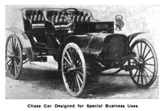 Chase Motor Truck Company - Advertisement 1909 - Chase car designed for special business uses and western roads